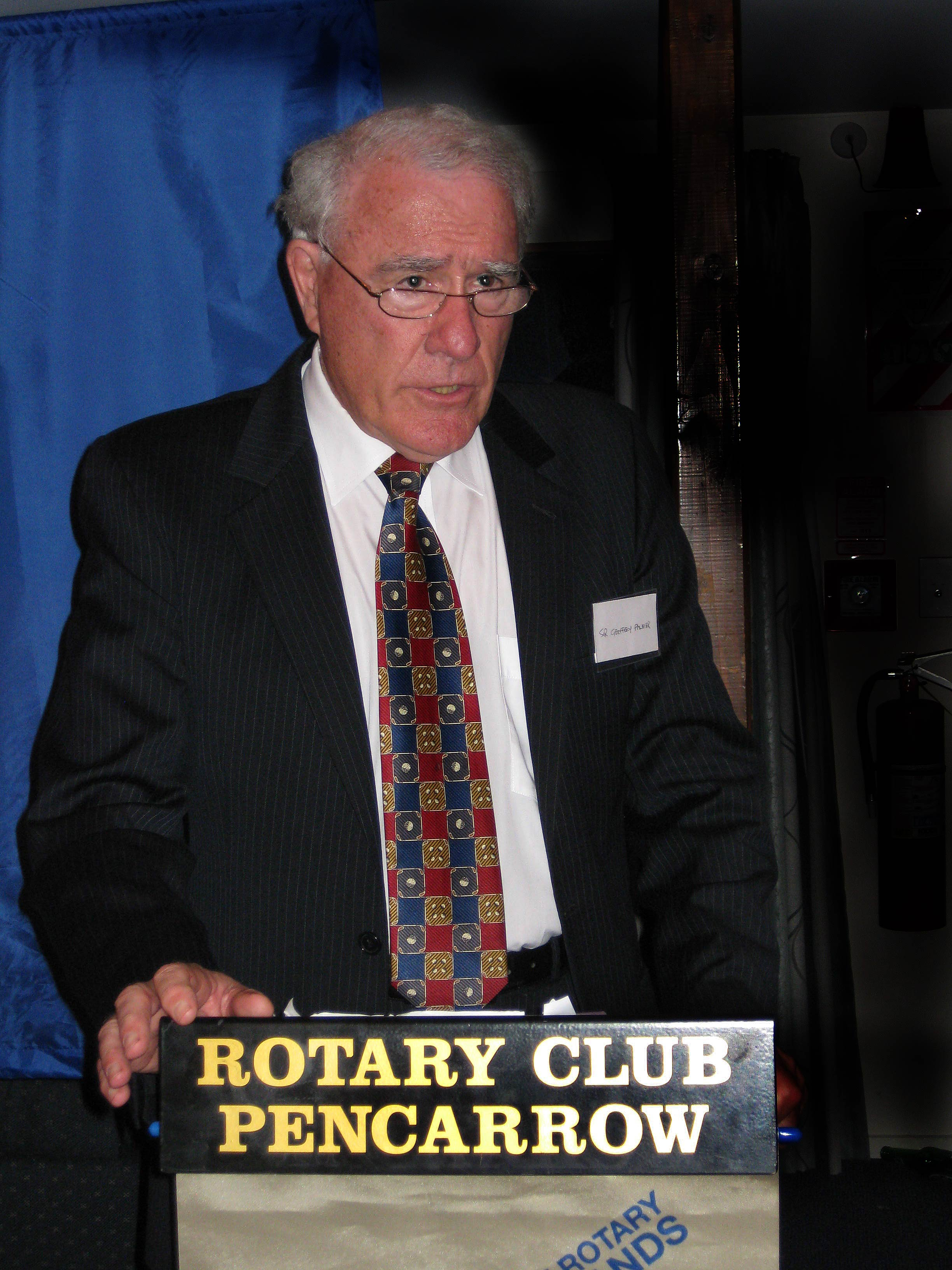 Sir Geoffrey Palmer